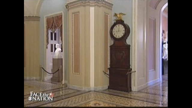 Photo Excerpt of The Ohio Clock from the October 13, 2013 television broadcast of Face The Nation on the Columbia Broadcasting System (CBS)